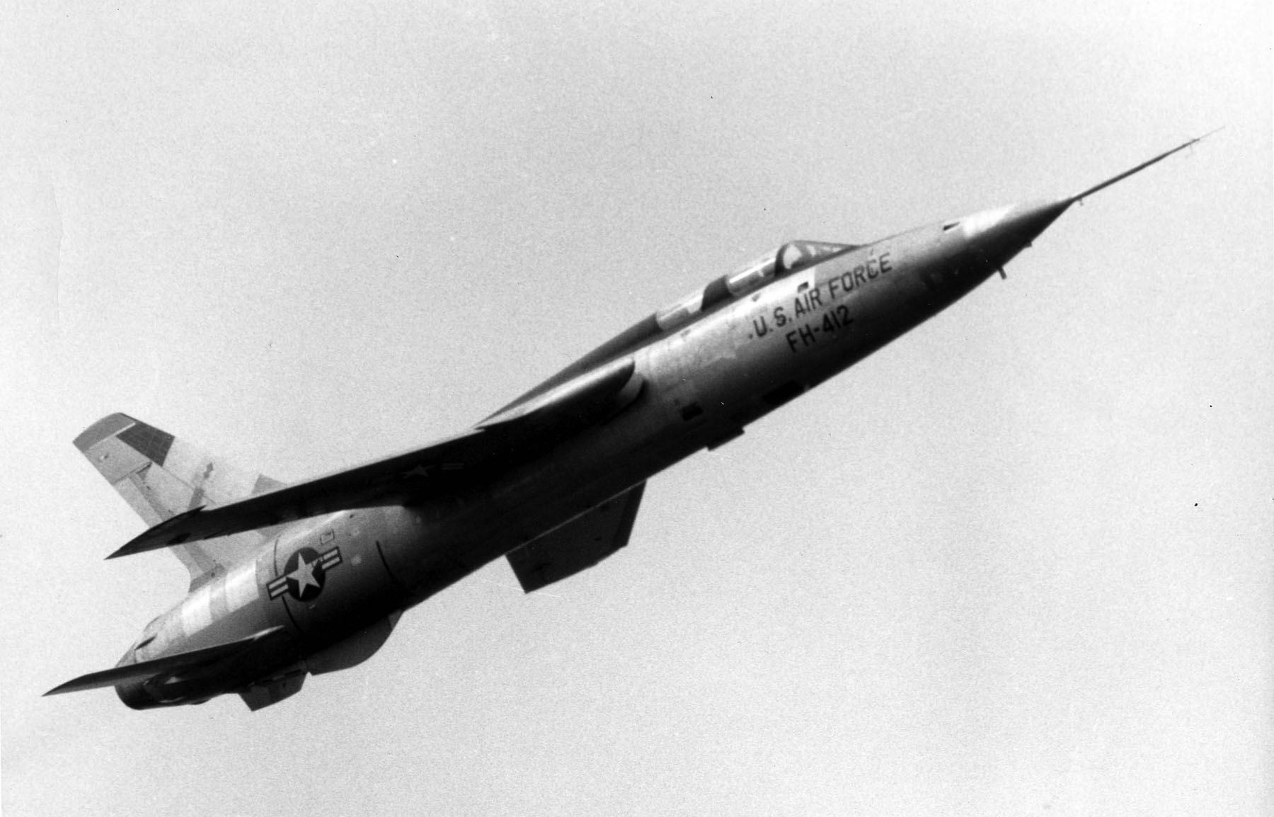 An U.S. Air Force Republic F-105F Thunderchief (s/n 62-4412) in flight in the early 1960s.